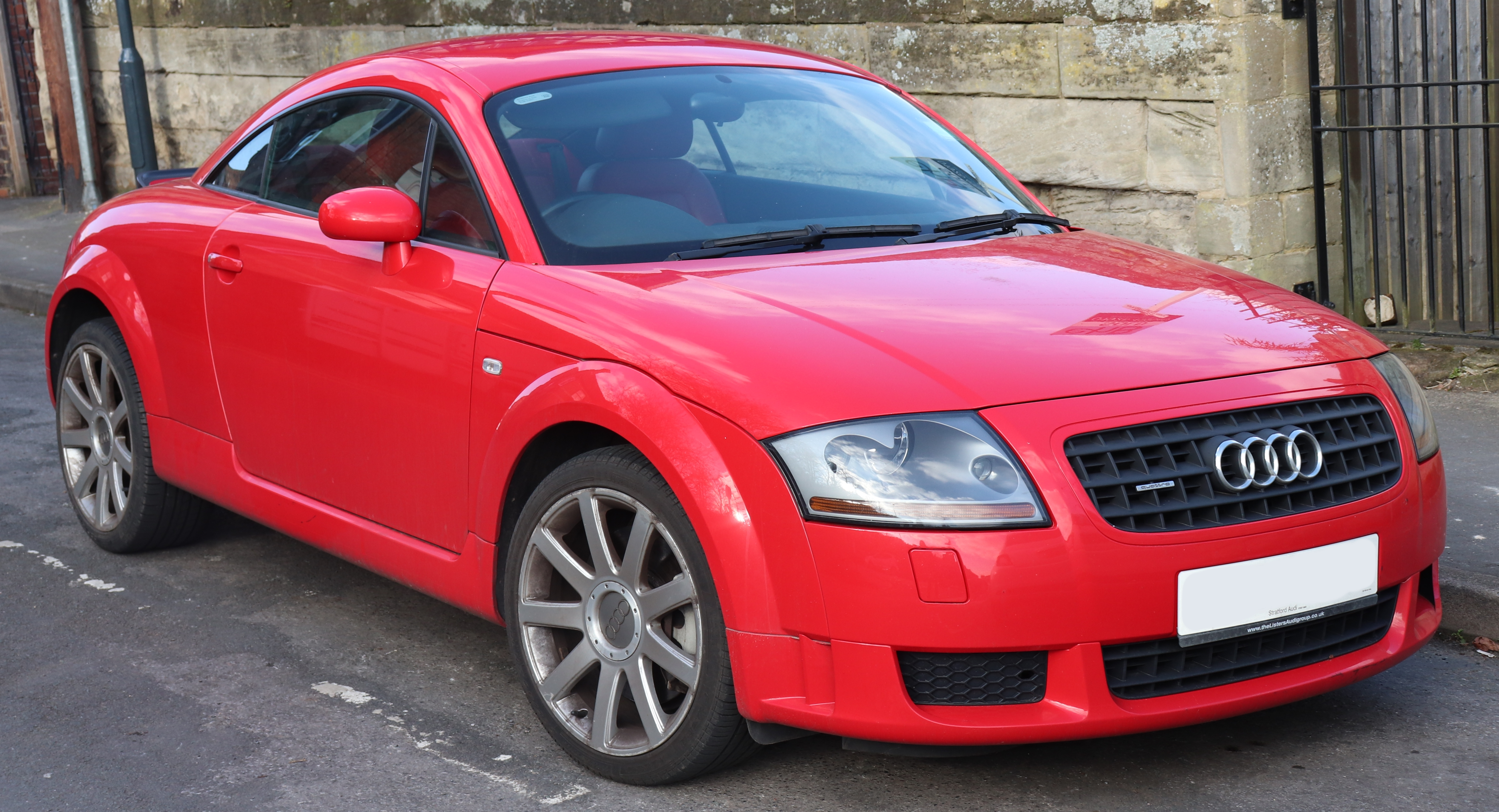 2005 Audi TT Quattro 3.2 Front Taken in Warwick